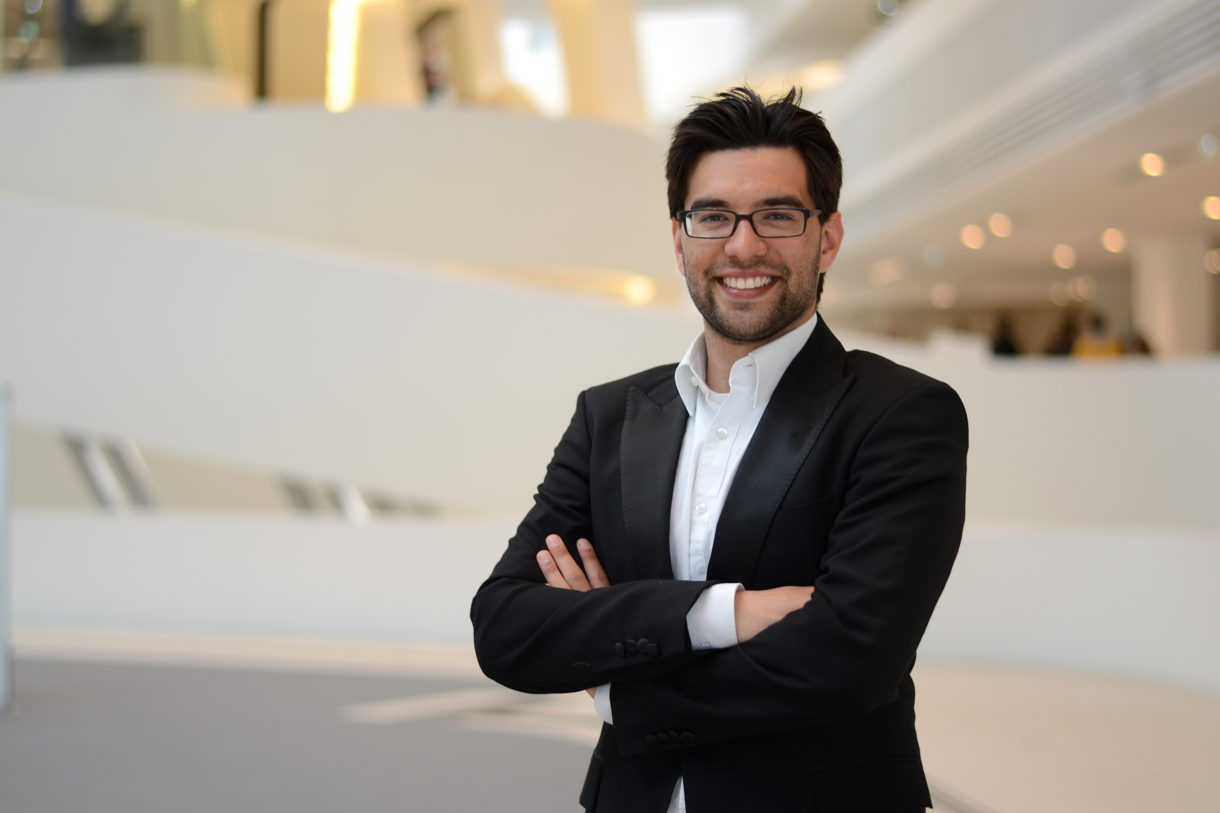 Photo of Akilnathan Logeswaran at the Vienna University of Economics and Business in 2014 taken by Nina Jakešová.